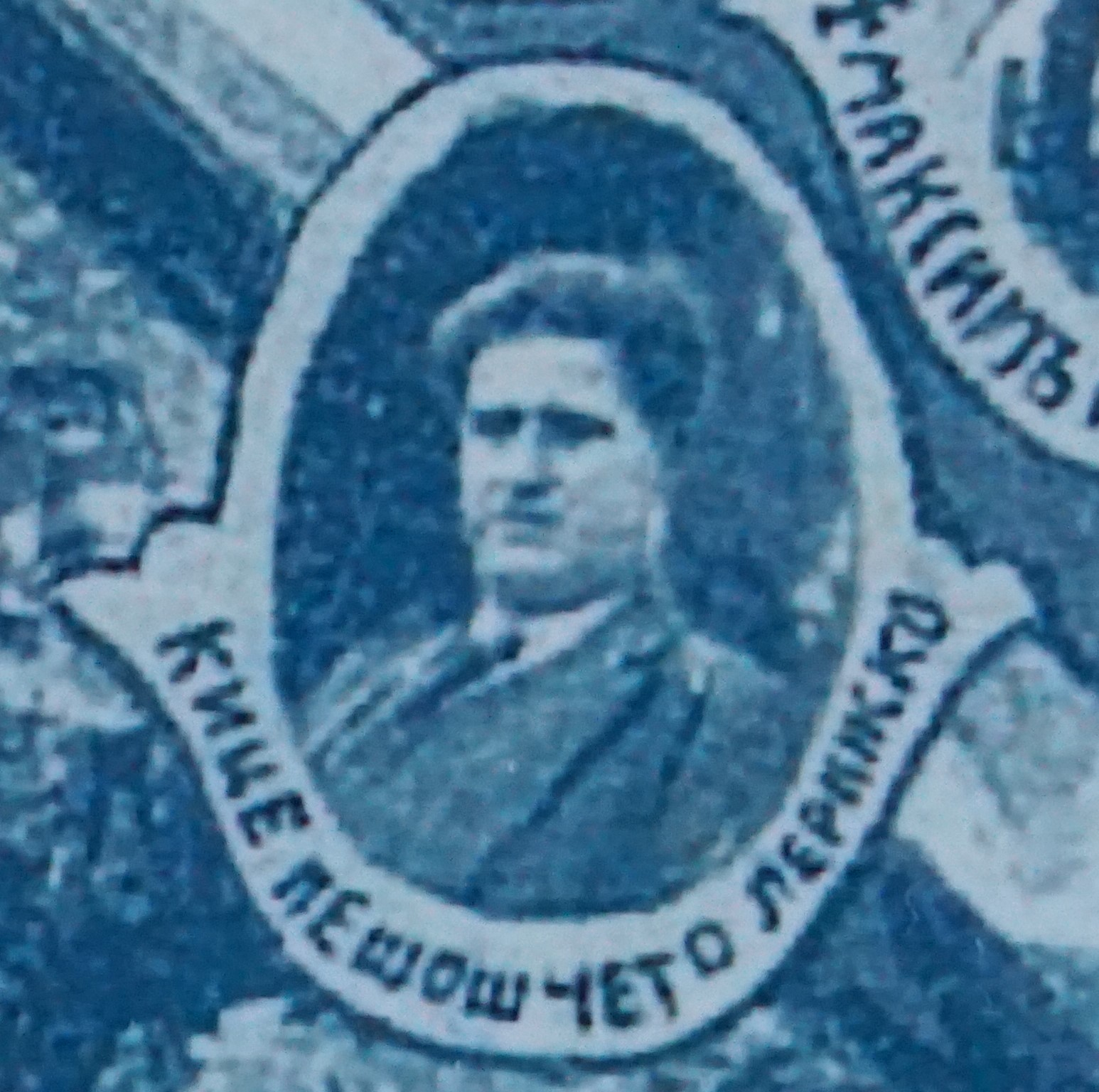 Kitse Peshocheto from Peshochnitsa, Lerin